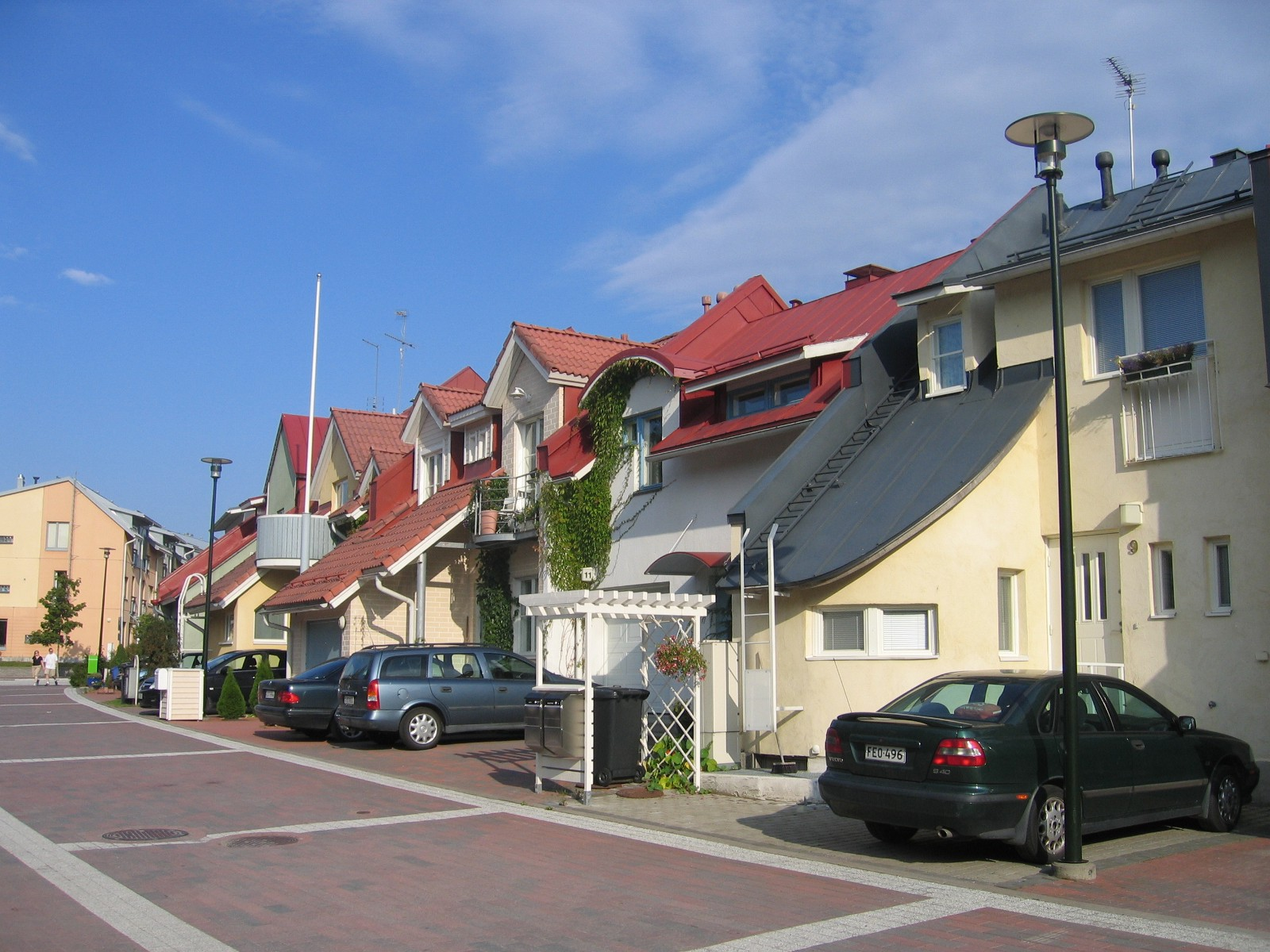 Säterinmetsä suburb in Espoo, Finland.